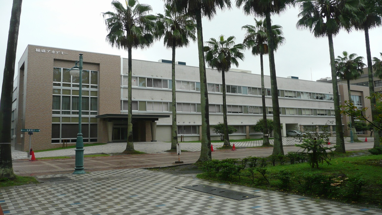 Kagoshima University - Inamori Academy.